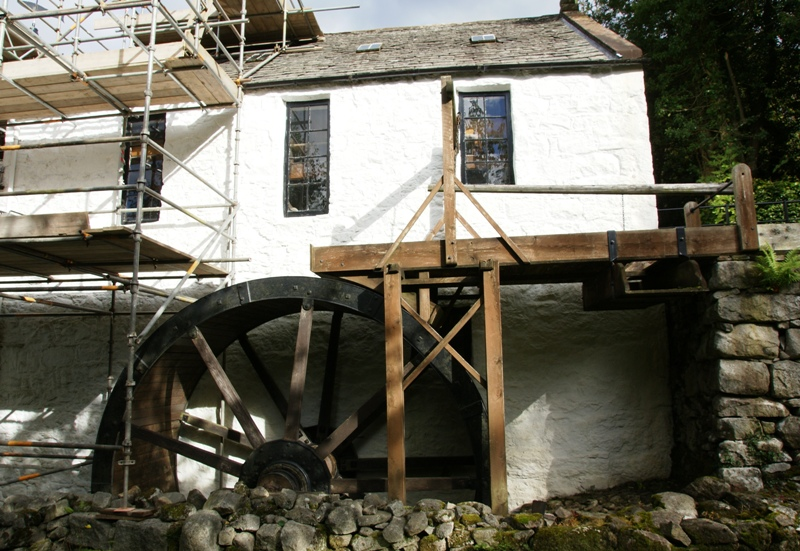 New Abbey Corn Mill, New Abbey, Dumfries and Galloway, Scotland. Water wheel.